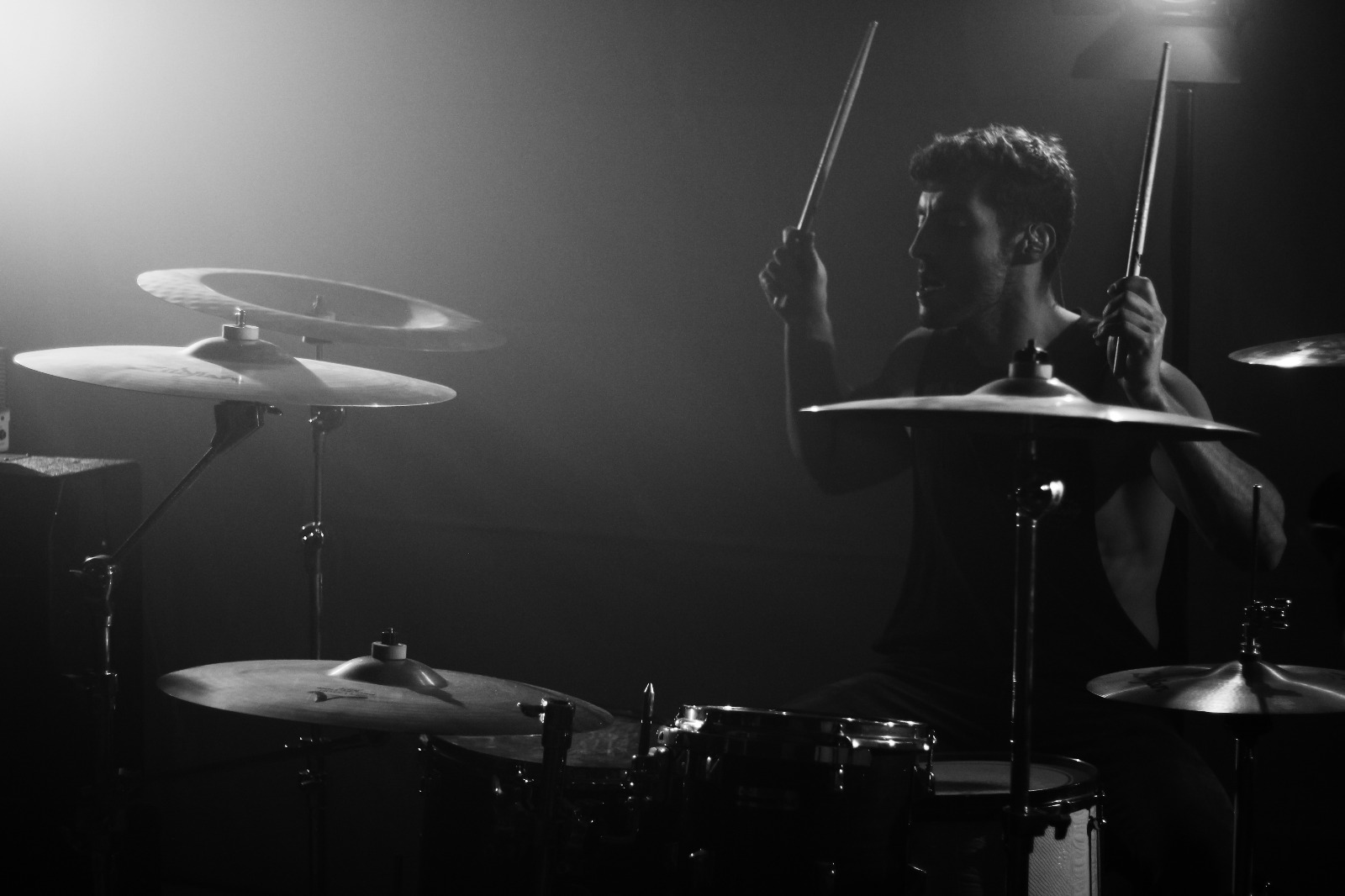 NTBF Drummer